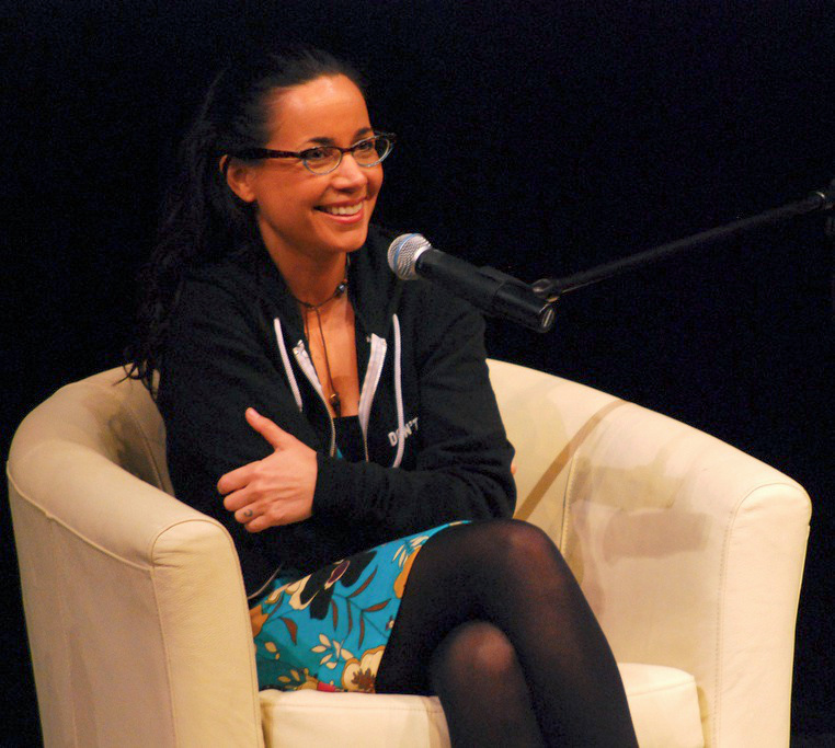 Janeane Garofalo at Bumbershoot 2008